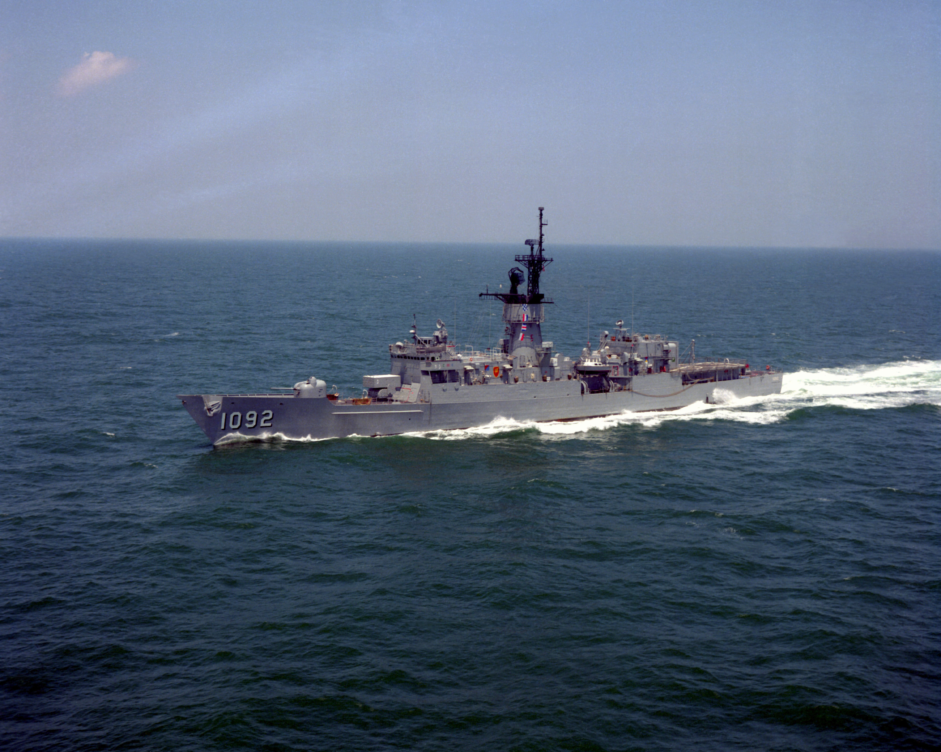 The U.S. Navy frigate USS Thomas C. Hart (FF-1092) underway in Chesapeake Bay on 21 February 1985.